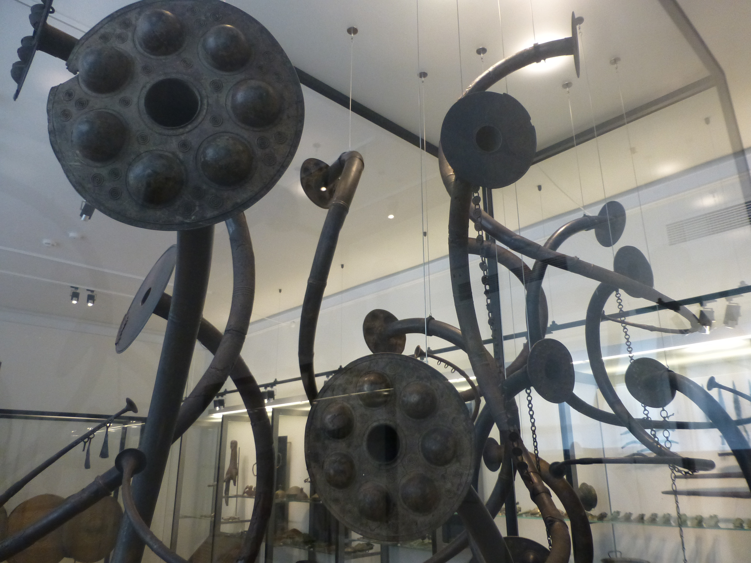 A collection of lur (ancient musical instruments) on display in the National Museum, Copenhagen